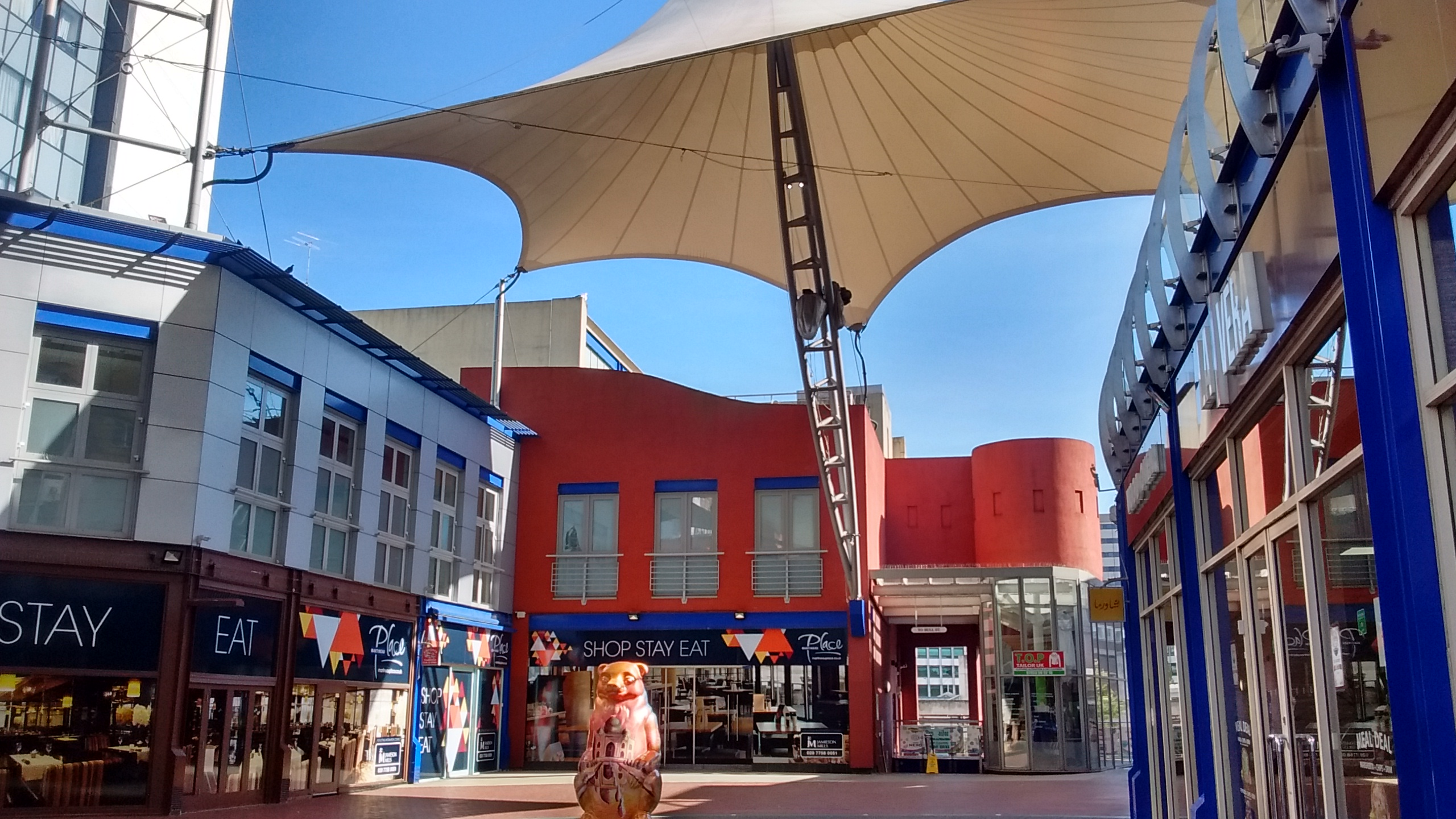 Internal view of the Martineau Place retail parade in Birmingham city centre